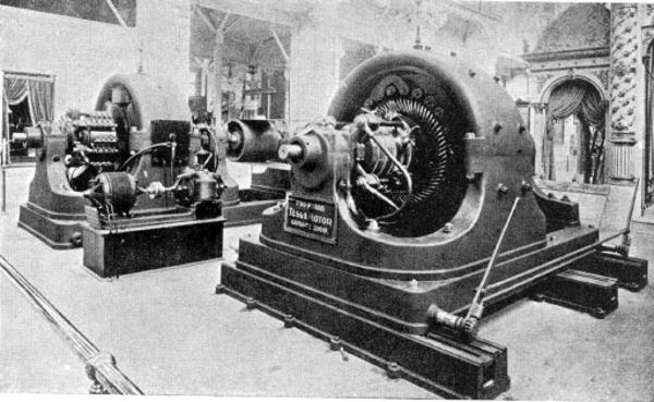 Tesla's Polyphase Alternating Current 500 horse power generator, in Westinghouse exhibit in the Electricity building of the 1893 World Columbian Exposition in Chicago.